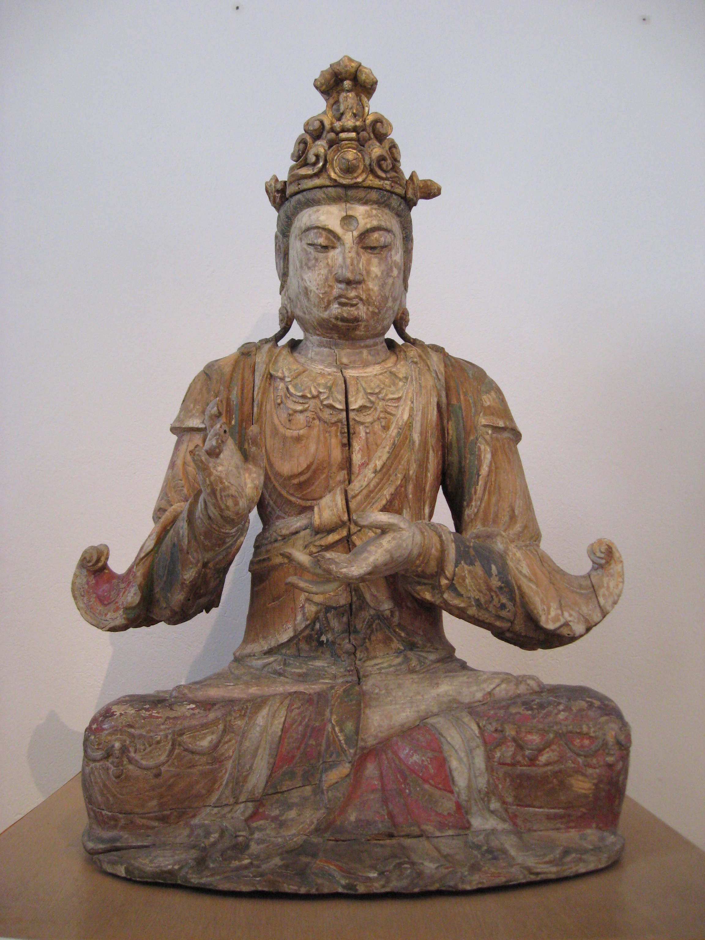 The Bodhisattva of Infinite Compassion and Mercy, Avalokiteśvara Bodhisattva, in Chinese called Guanyin pusa, sitting in a lotus position. The damaged hands probably performing dharmacakramudra, a gesture that signifies the first sermon in Sarnath when Buddha put the wheel of learning in motion. Painted and gilded wood. China. Song/Jin period, late 13th century. This is a photo of an artwork at the Museum of Far Eastern Antiquities in Sweden with the identifier: NMOK-510